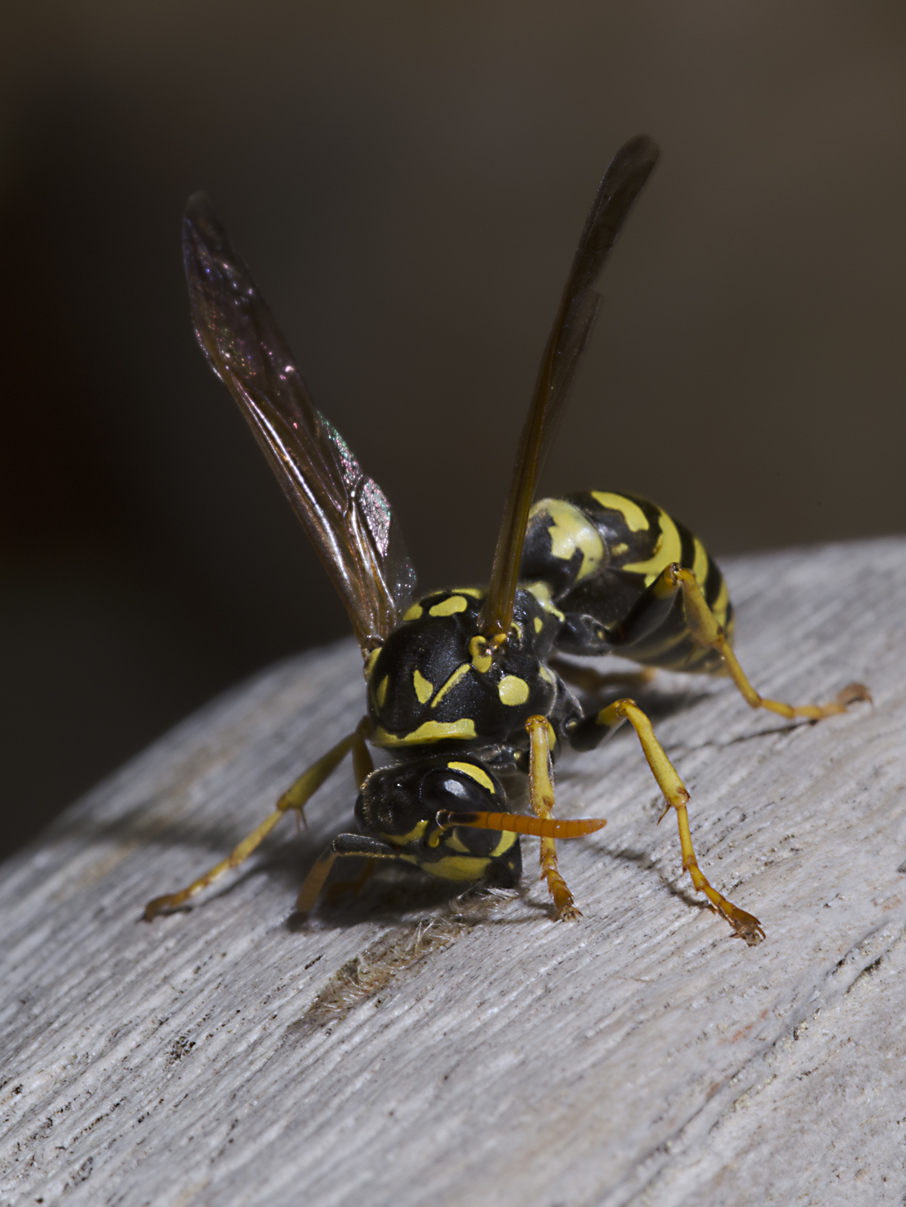 Paper wasp (Polistes dominula) grating wood fibers for building its nest (picture taken in Stuttgart, Germany)